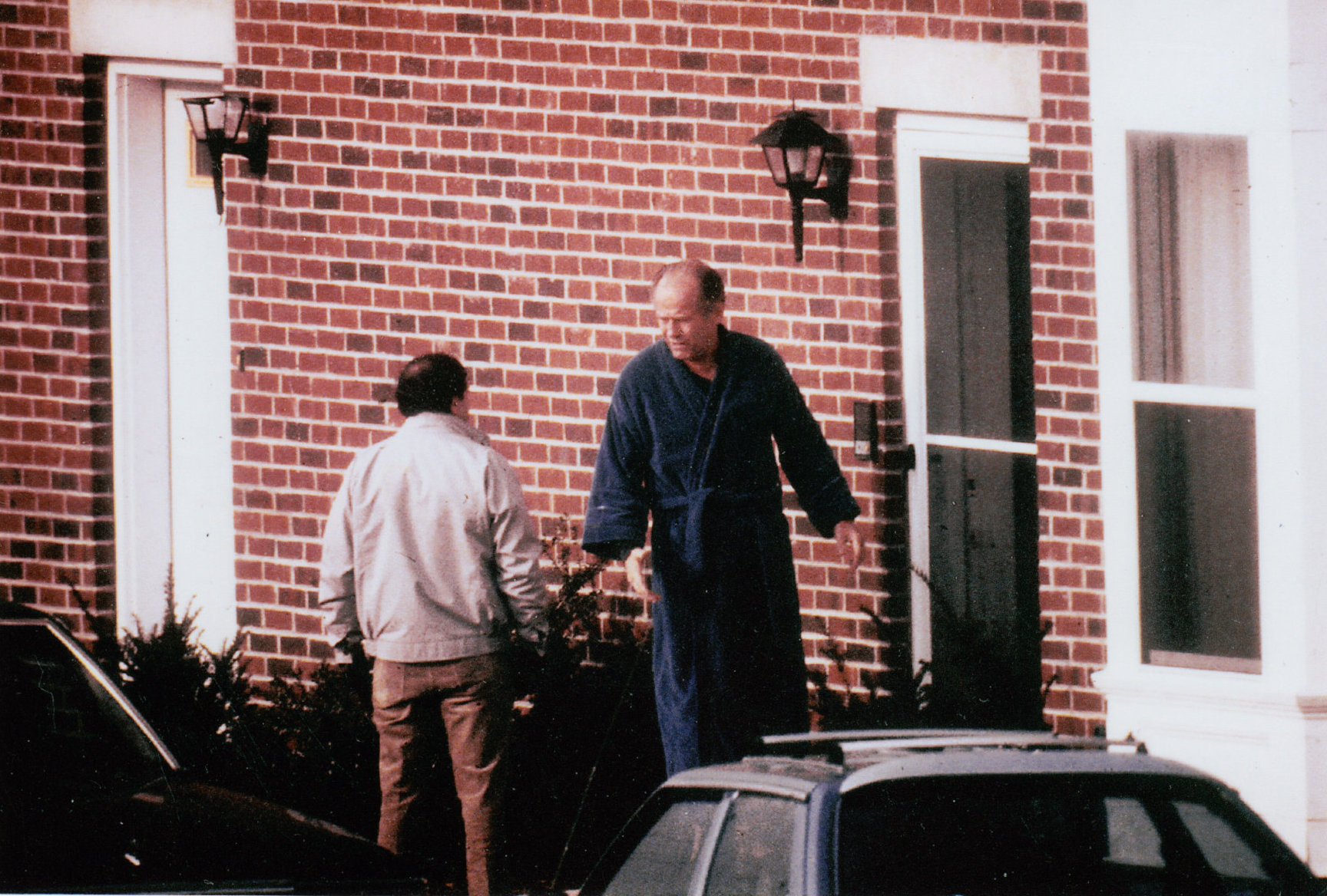 This is an FBI surveillance photograph of the former Winter Hill Gang hierachy in the 1980s. Mob boss, James J. Bulger (right) and lieutenant Stephen Flemmi (left). This is a federal photo that is under public domain.